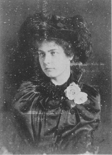 Constance Lloyd aged twenty-four, on holiday at Delgaty Castle, Aberdeenshire, August 1882. A note on the back says the picture was taken by ‘Mr Burton, Son of the Scottish Historian’. This will be William Kinnimond Burton, early photographer and son of the hstorian John Hill Burton.